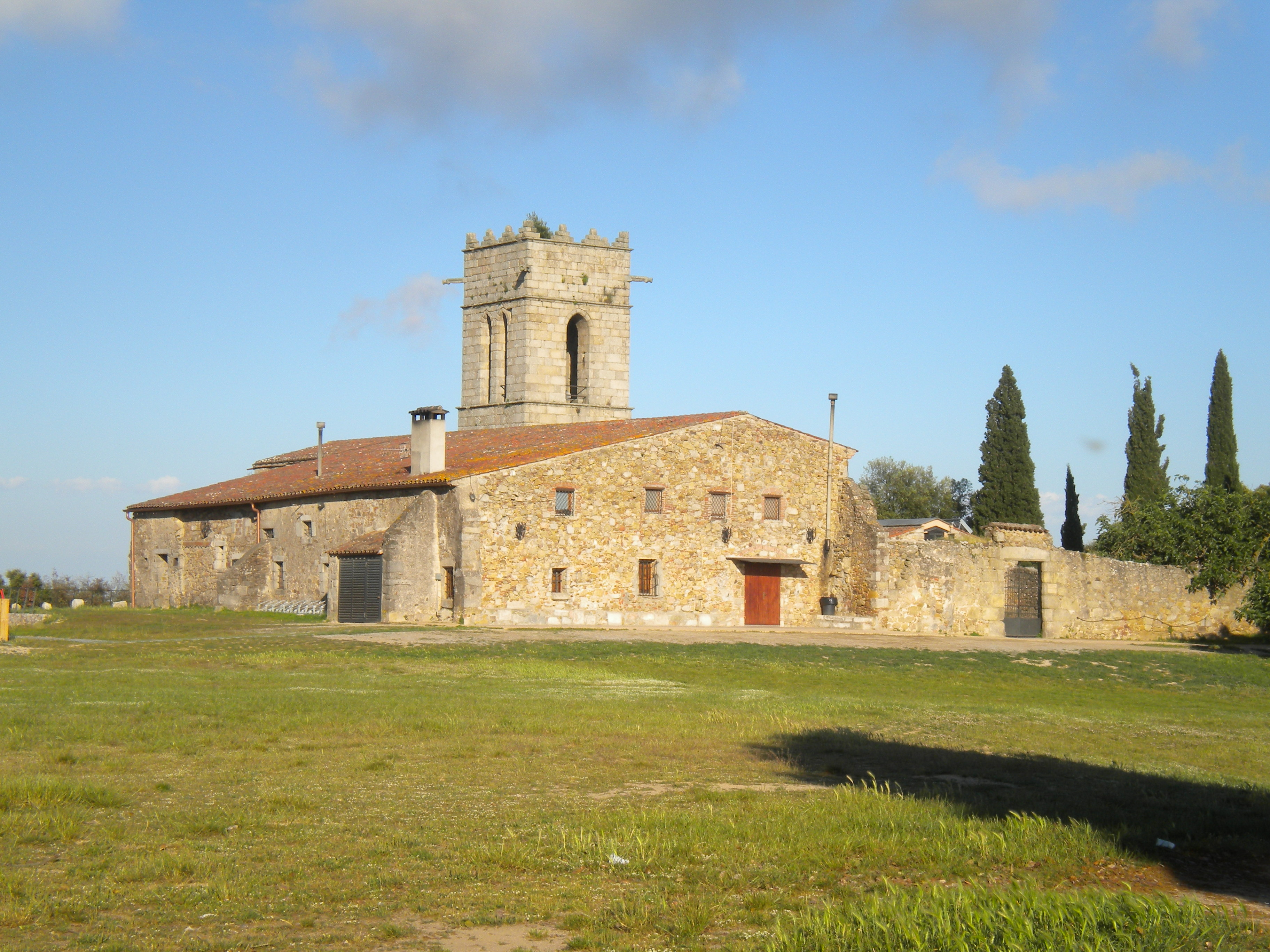 View of the Shrine of the Corredor, a 16th century hermitage in the Montnegre i el Corredor National Park.